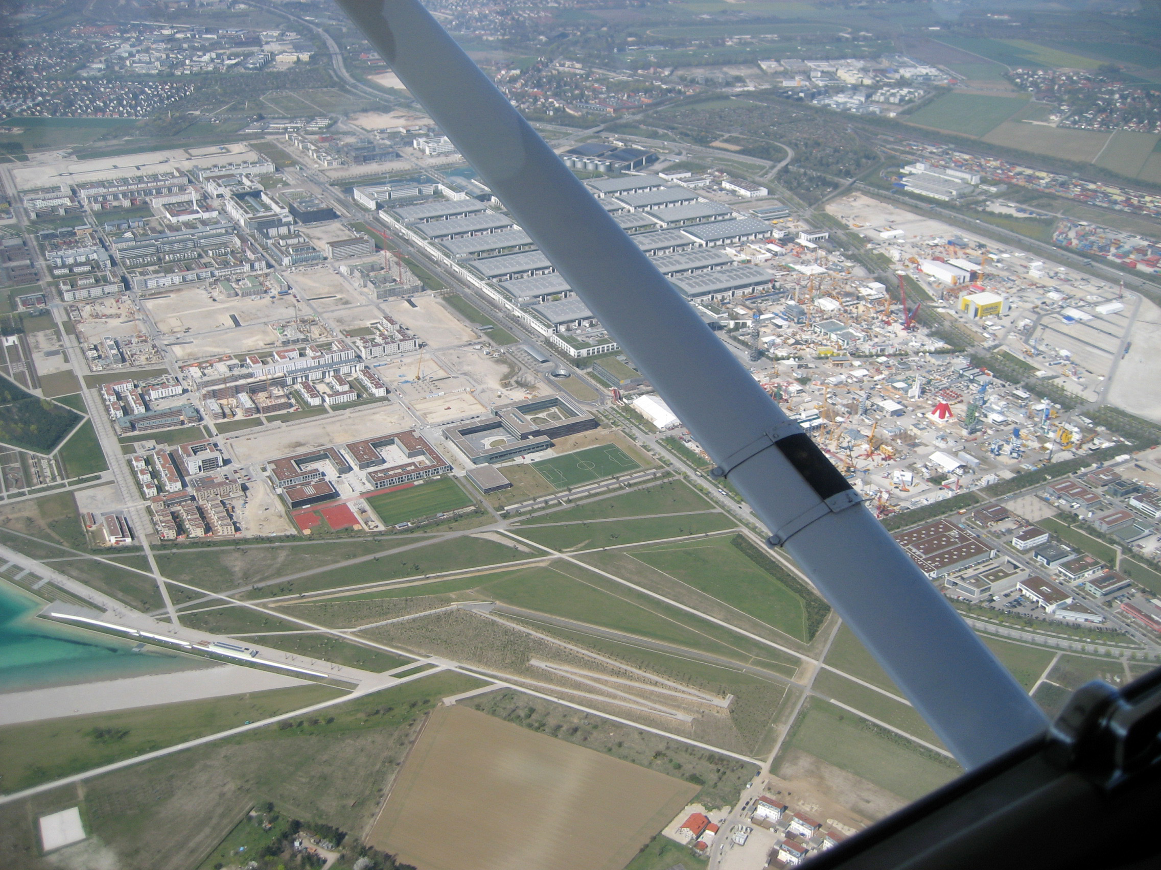 Aerial view of the Munich exhibition center (right) and the new neighborhood Messestadt Riem (left) during the 2007 Bauma construction trade fair.